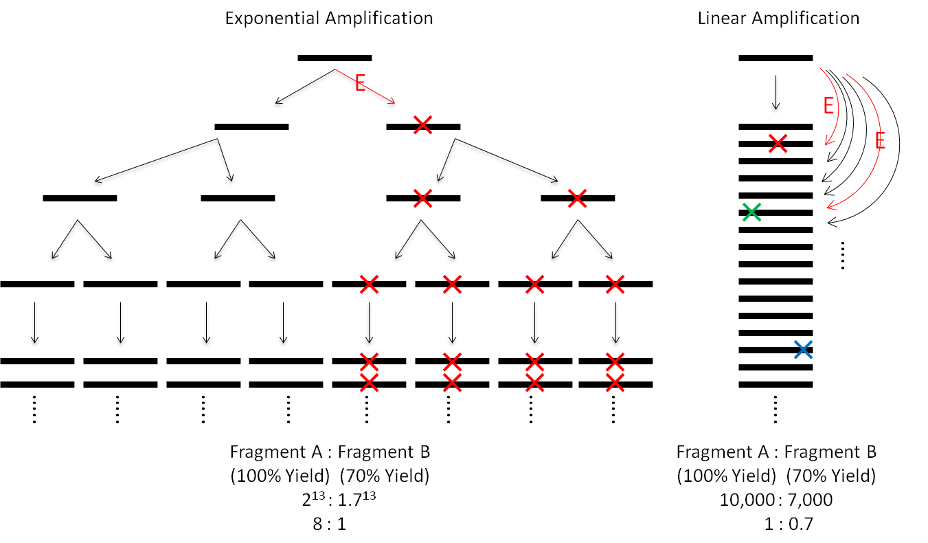 Comparison between exponential amplification and linear amplification